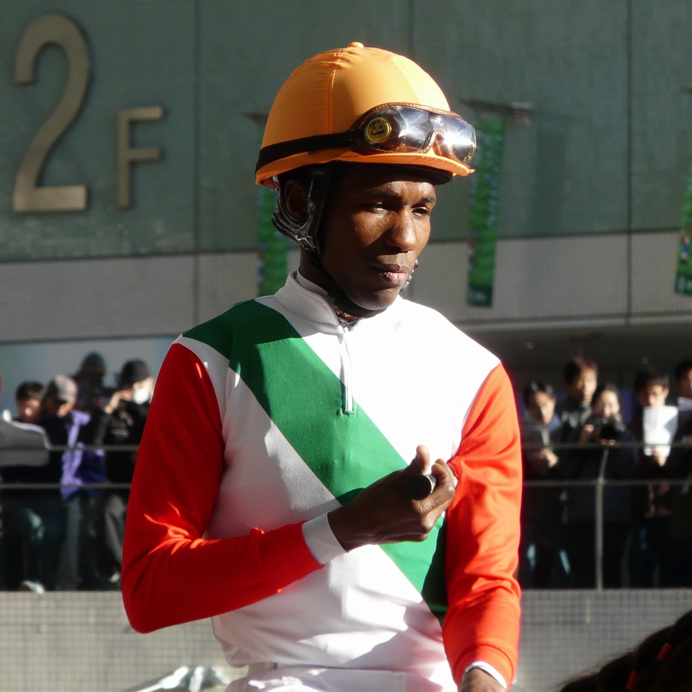 Eduardo-Pedroza20111204